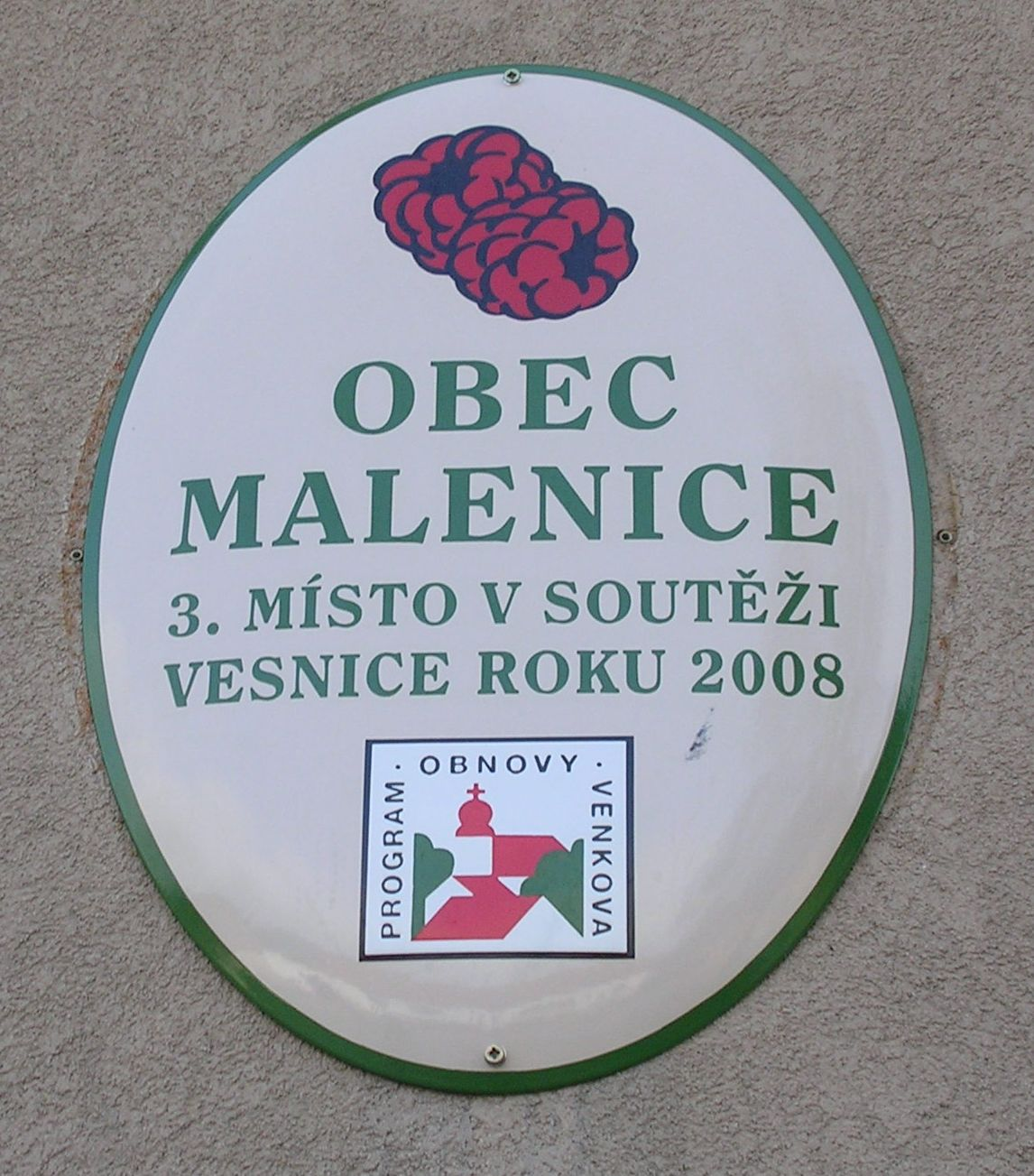 Malenice, the Czech Republic.